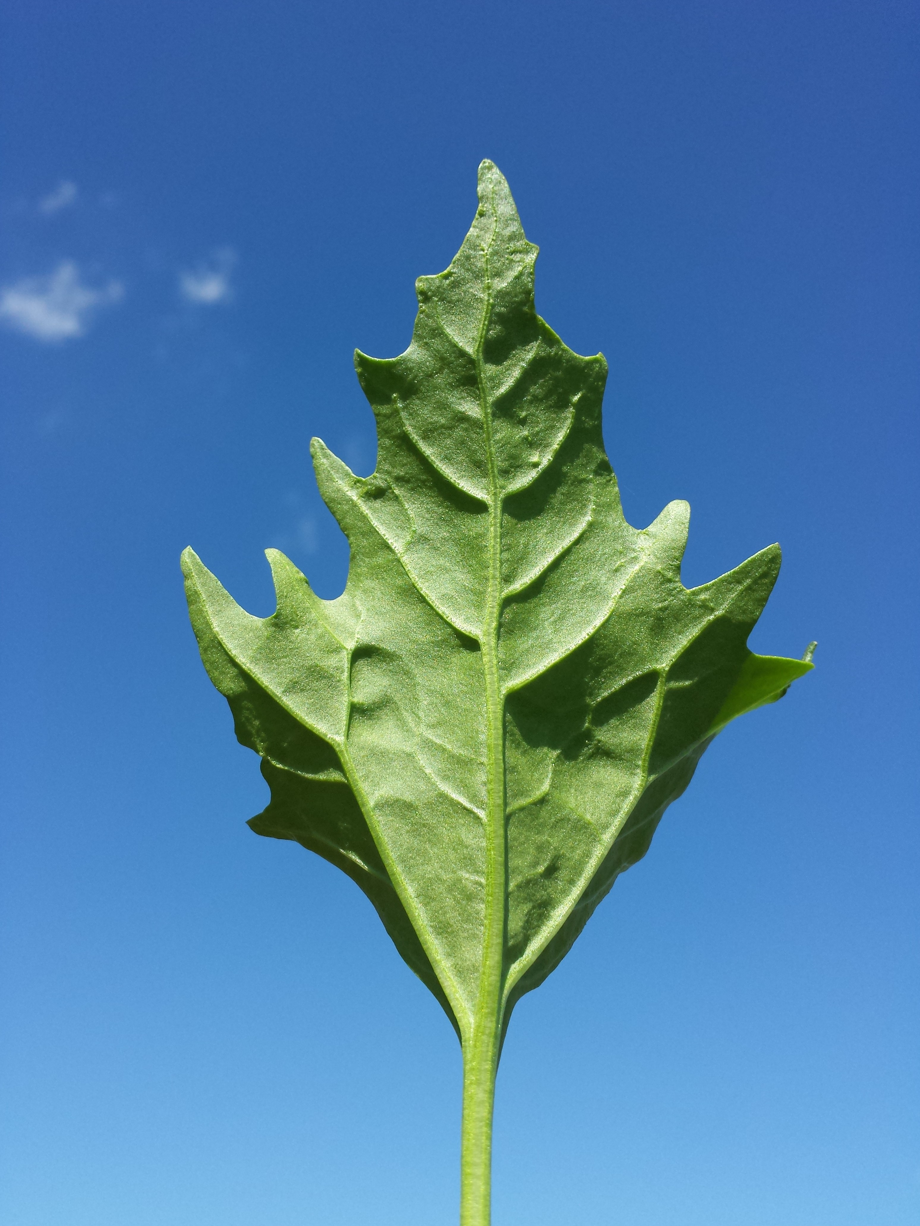 Leaf Taxonym: Chenopodium rubrum ss Fischer et al. EfÖLS 2008 ISBN 978-3-85474-187-9 Location: Žárský rybník, Jihočeský kraj, Czech Republic - ca. 500 m a.s.l. Habitat: dungheap